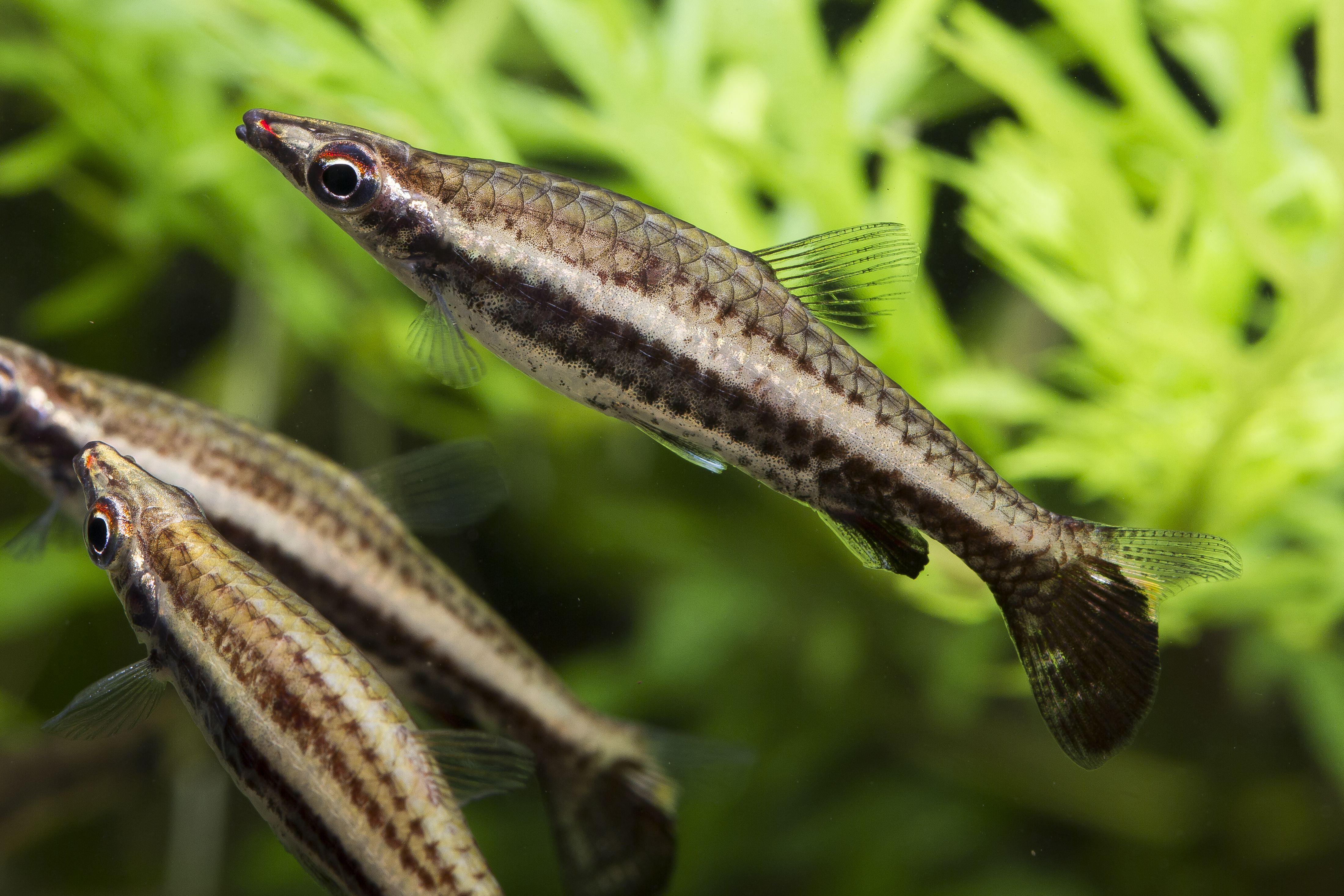 Nannostomus eques